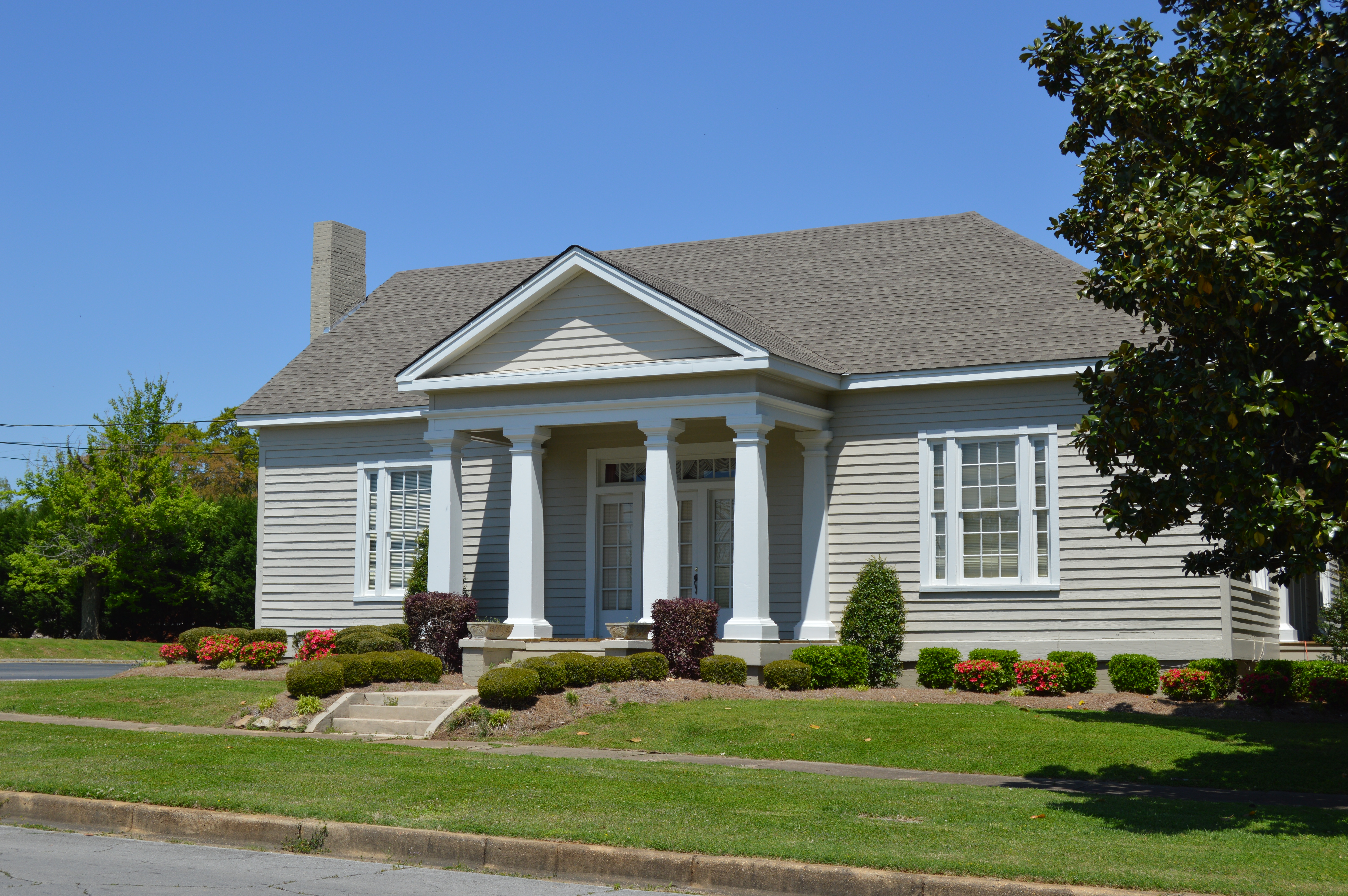 Southern front of the Felix Grundy Norman House, located at 401 N. Main Street in Tuscumbia, Alabama, United States. Built in 1851, it is listed on the National Register of Historic Places, and it is part of a Register-listed historic district, the Tuscumbia Historic District.